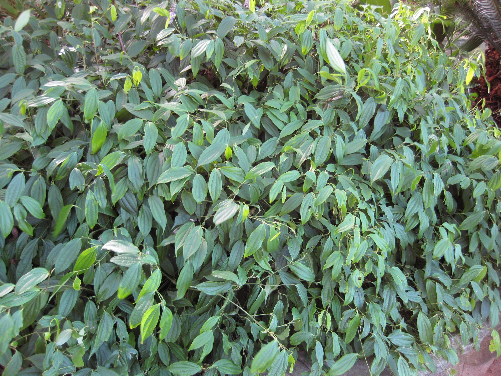 Category:Piper curtipedunculum. Photographed at the Royal Botanic Gardens Sydney (Australia) in December